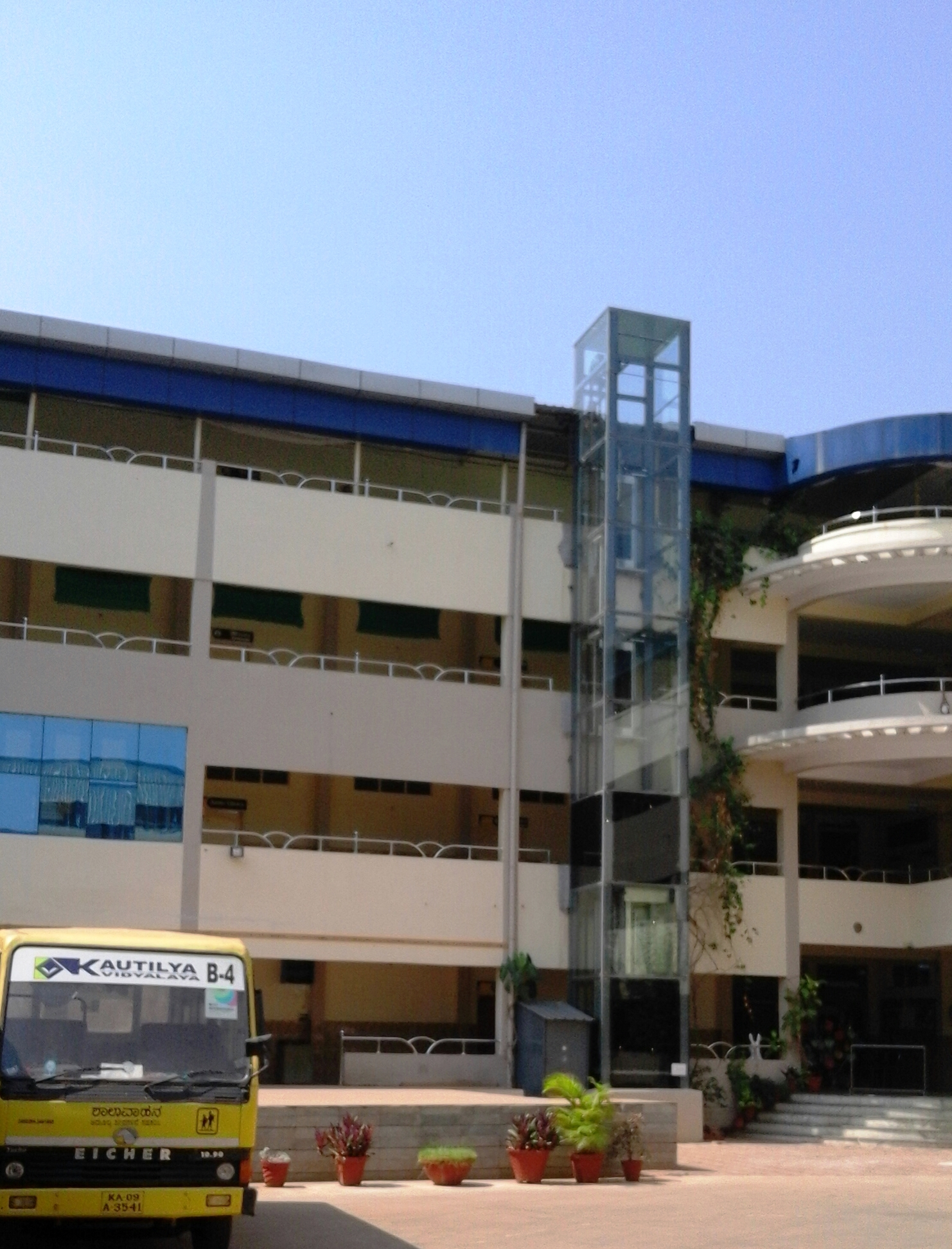 Mysore city, Karnataka state, India.